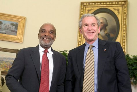 US President George W. Bush and President Rene Preval of Haiti stand in the Oval Office Tuesday, May 8, 2007, during a photo opportunity with the media. The leaders were expected to discuss a range of issues, including recent efforts by the United Nations stabilization mission in Haiti to enhance security and opportunities for promoting growth and prosperity in Haiti.